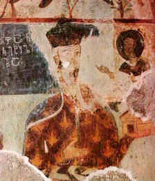 Zaza Panaskerteli, a Georgian nobleman and scholar. A fresco from the Qintsvisi monastery